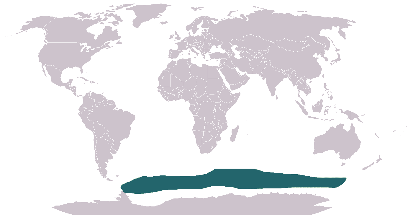 Antarctic Fur Seal (Arctocephalus gazella) range